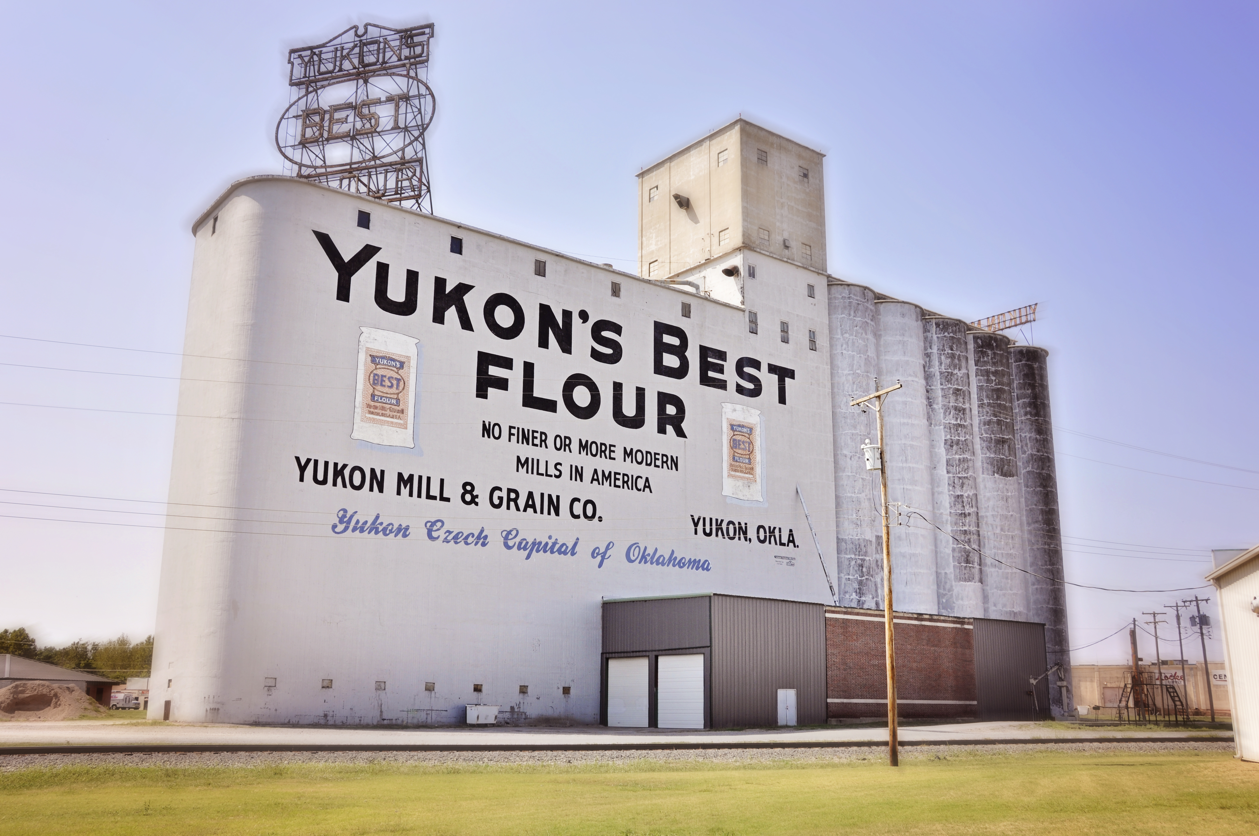 Yukon's Best Flour Mill, Yukon, OK, situated on historic Route 66